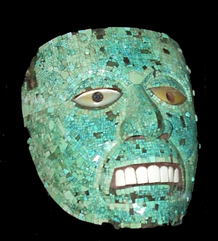 Turquoise mosaic mask of Xiuhtecuhtli, the god of fire. Aztec or Mixtec (AD 1400-1521), in the British Museum.